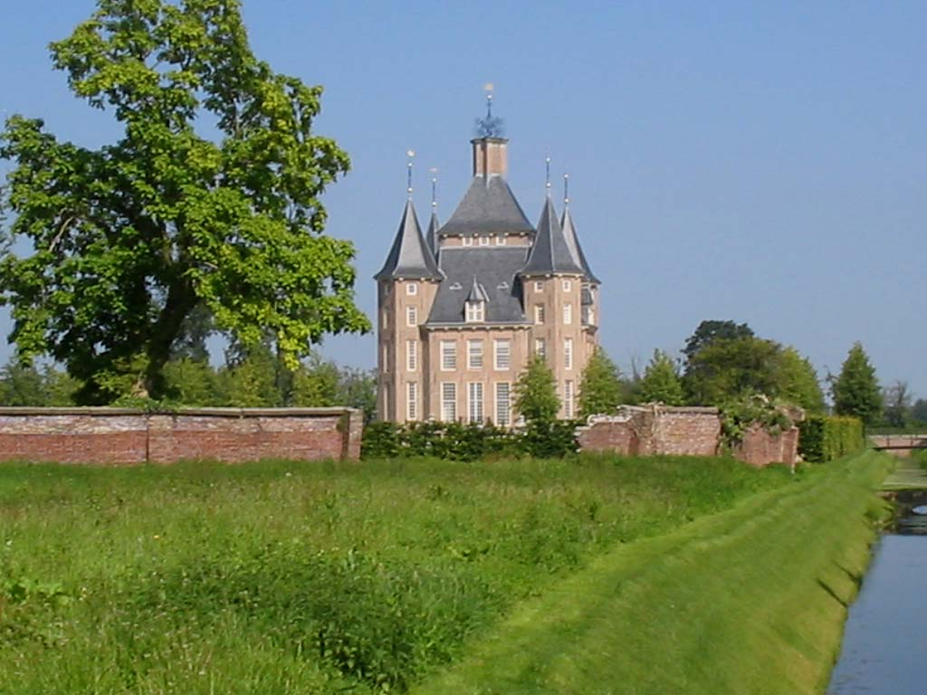 Castle Heemstede (near city Houten, Netherlands), august 2005